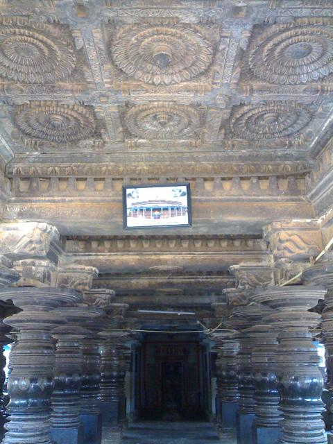 Kundgol Shambhulinga_temple 15 km from Hubli Author and Source : Manjunath Doddamani, Gajendragad, Karnataka (North), India